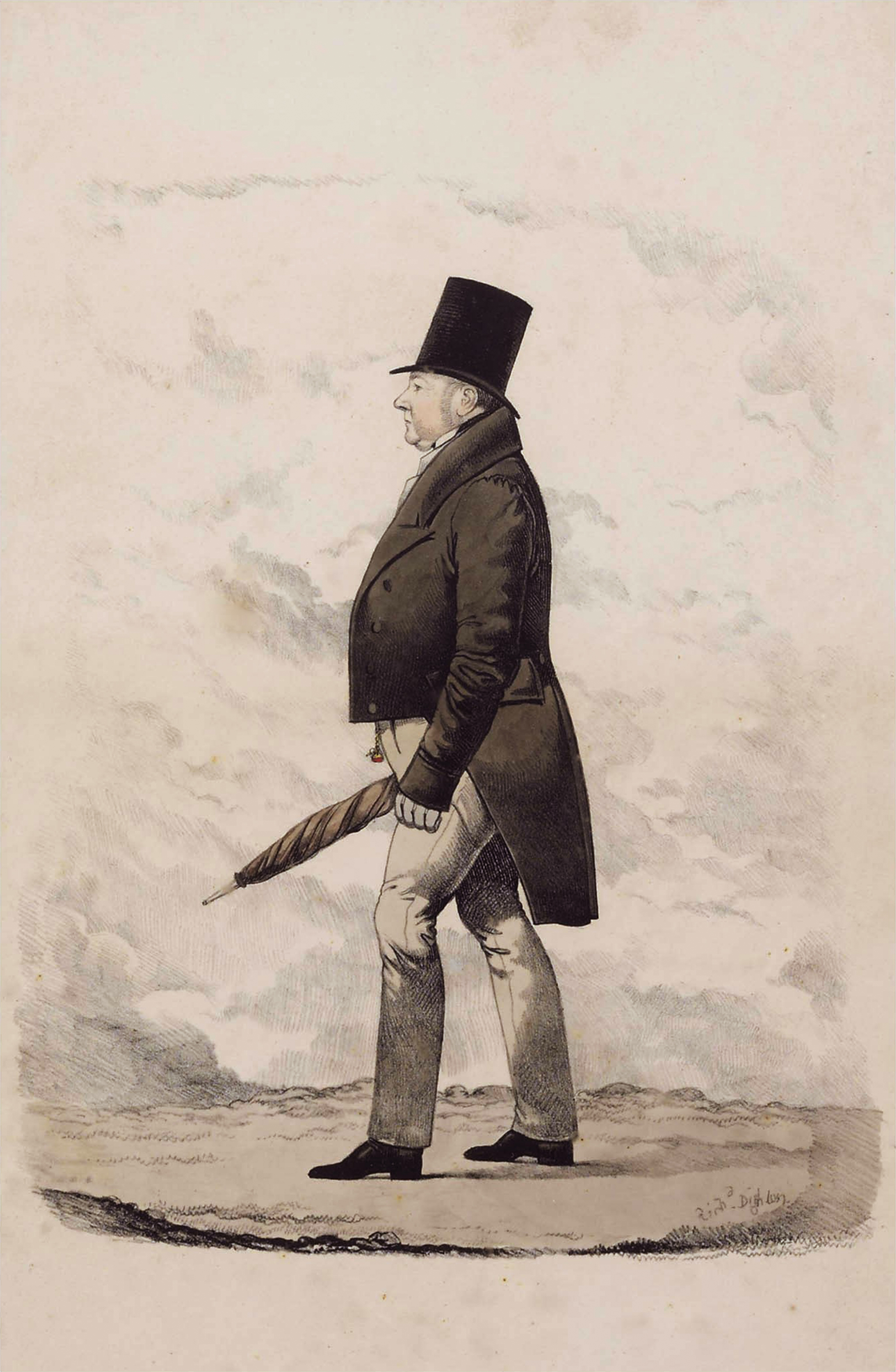 Henry Beauchamp Lygon, 4th Earl Beauchamp, K.C.B. (1784-1863) pencil and watercolour signed l.r.: Richd Dighton